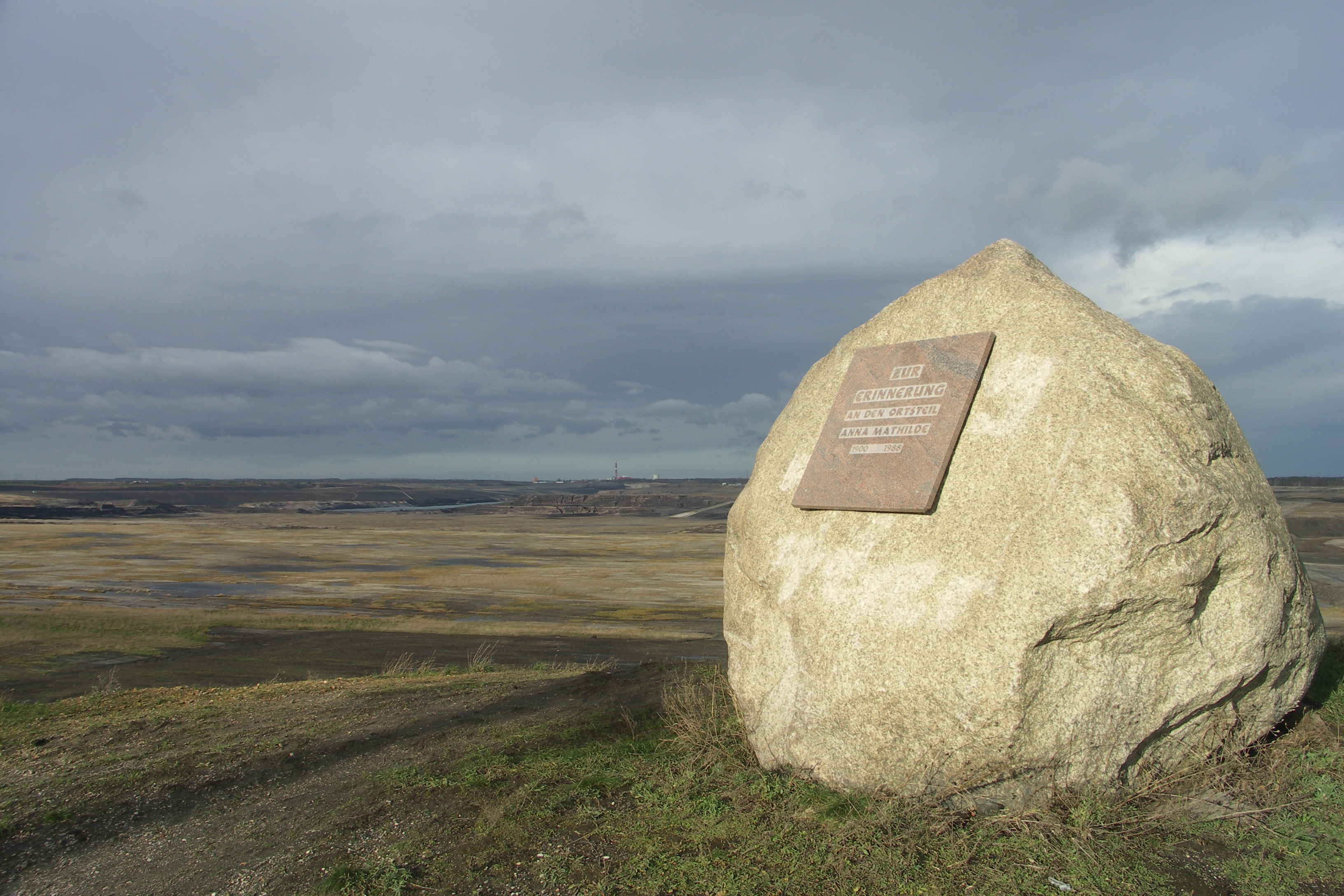 Memorial for the devasted village of Sedlitz-West, in the background a former open-coal